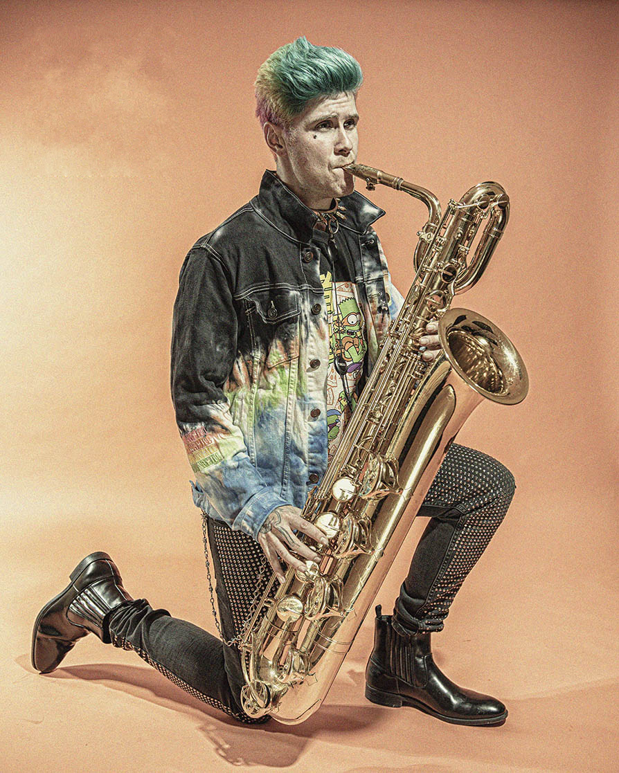 Leo Pellegrino stops by for a studio session with Yikmun Photography in Livonia Michigan USA prior to his performance with Too Many Zooz at Le Club in Detroit Michigan.